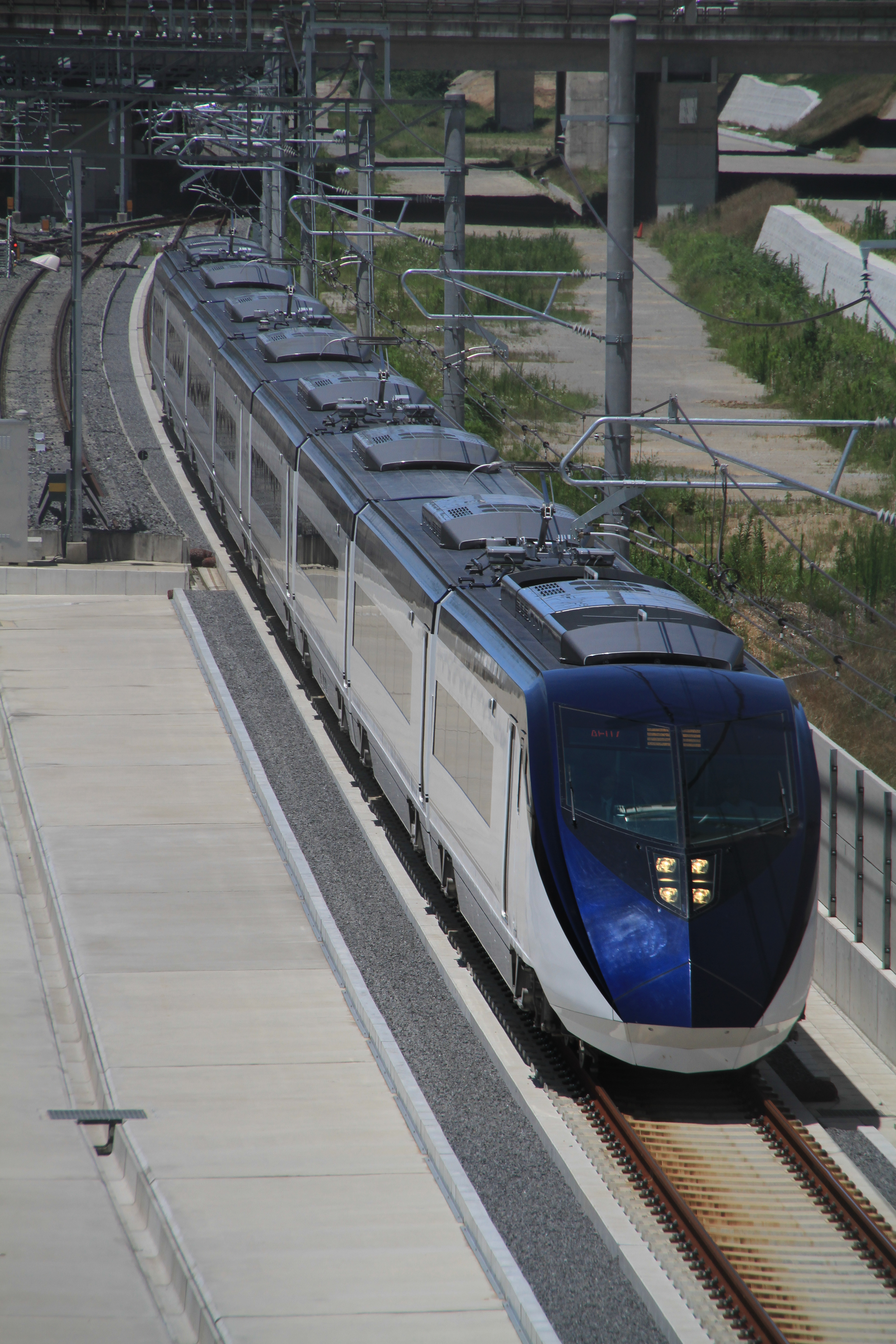 Keisei Sky Liner on the Keisei Narita Airport Line between Imba Nihon Idai and Narita Yukawa